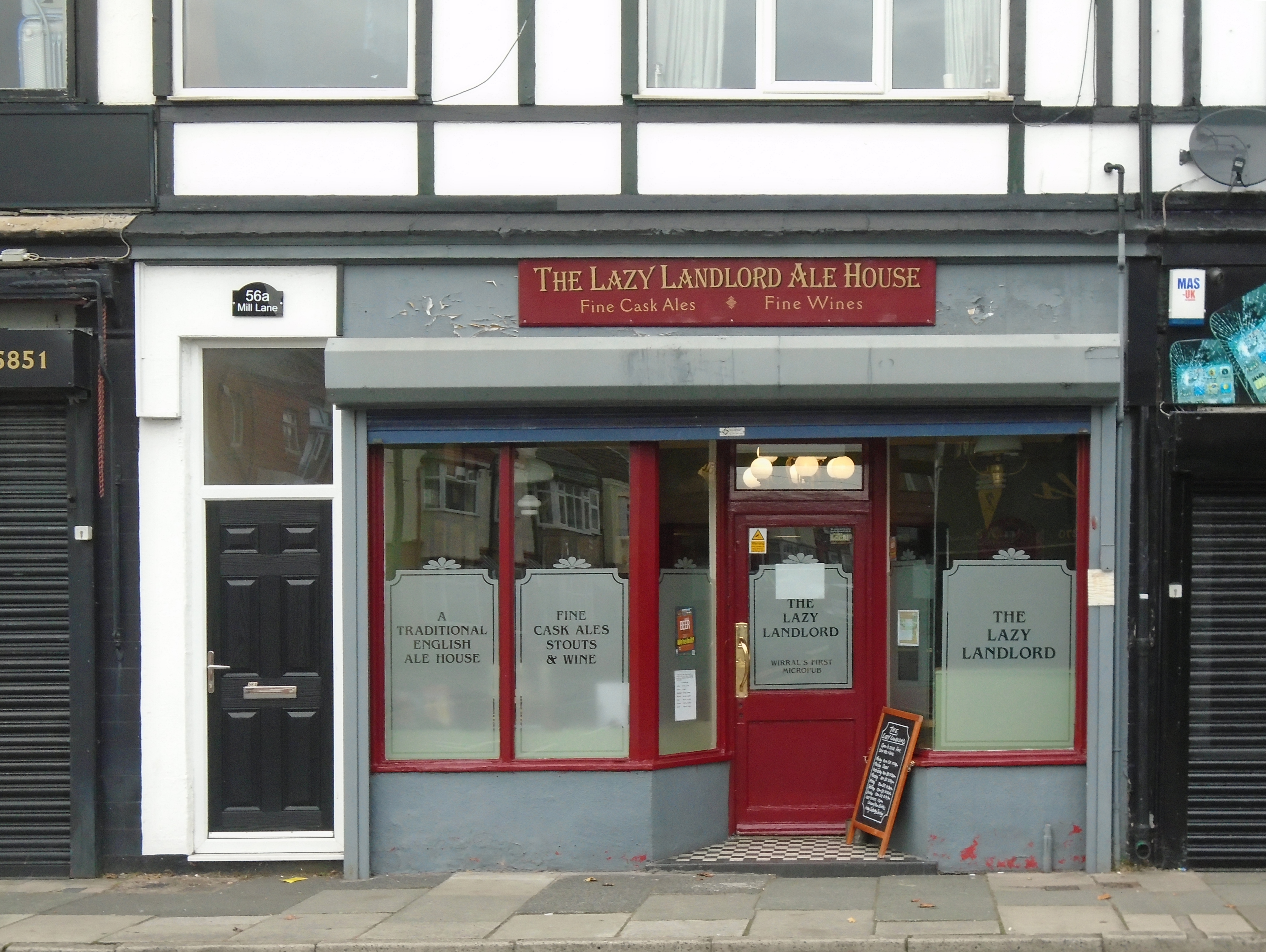 A micro-pub on Mill Lane, Liscard, Wallasey